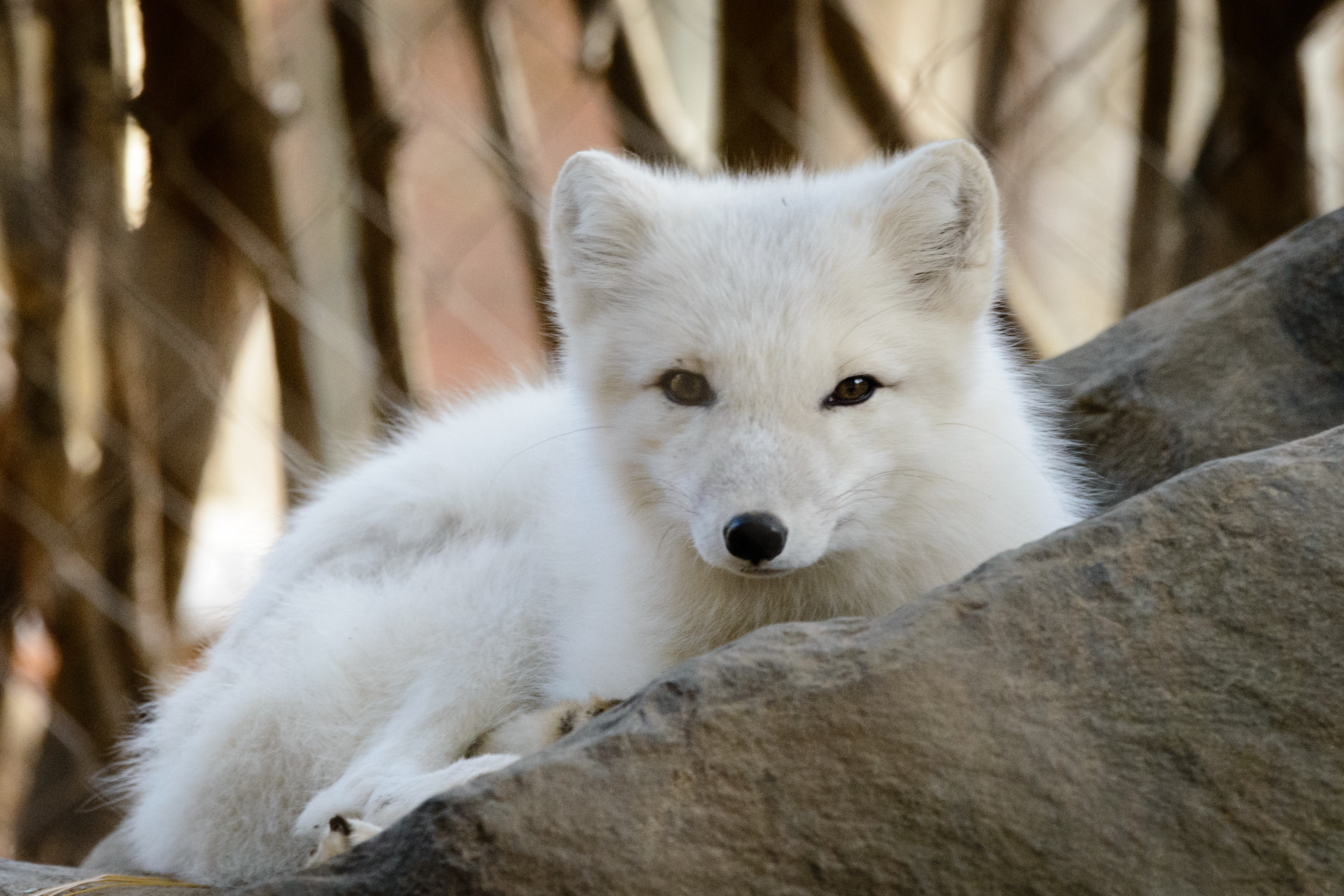 Arctic Fox